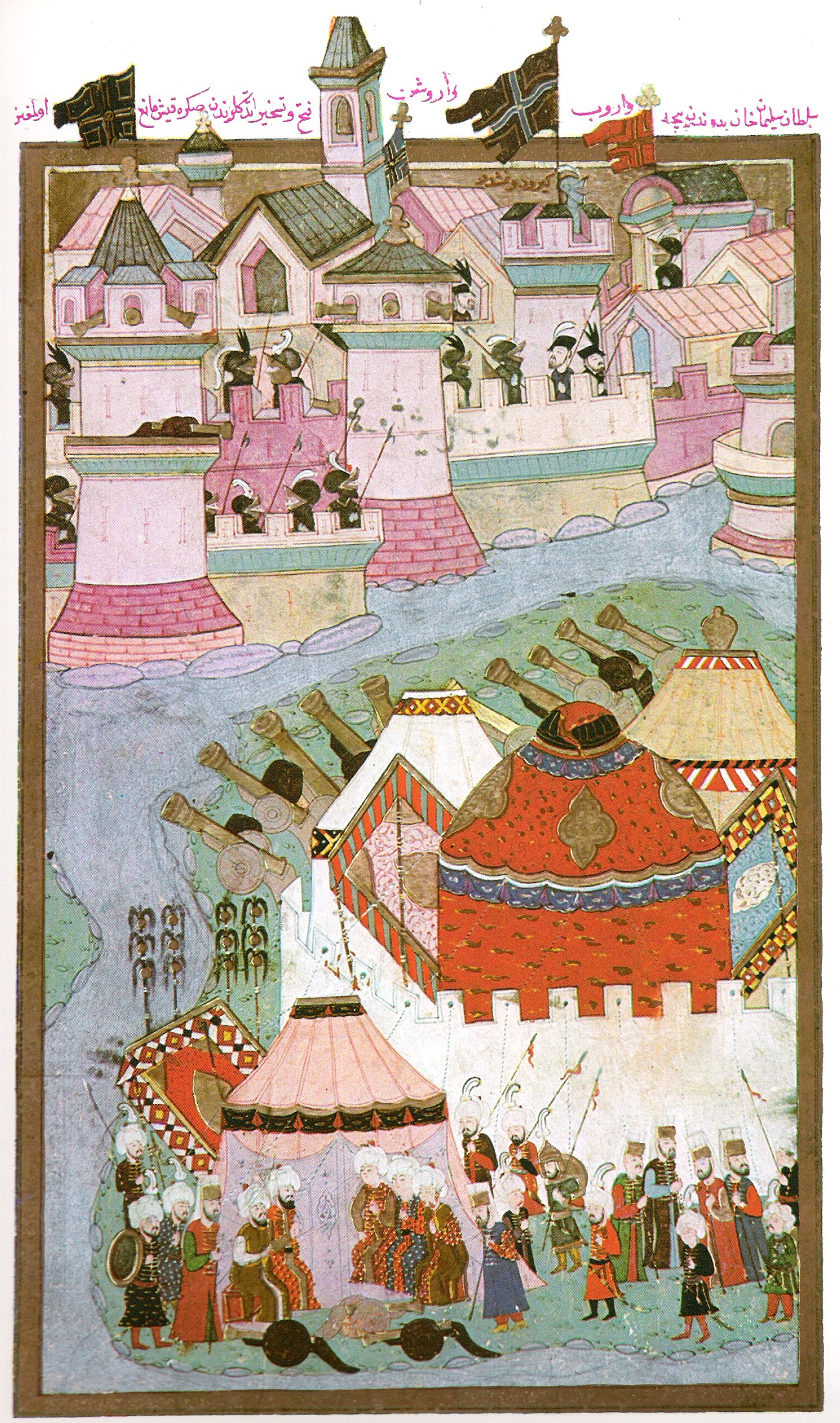 The Ottoman army besieging Vienna (پچ Peç) (1529)